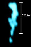 Defense Meteorological Satellite Program image of the "Milky Seas Effect" off of the Somali coast on Jan. 25, 1995